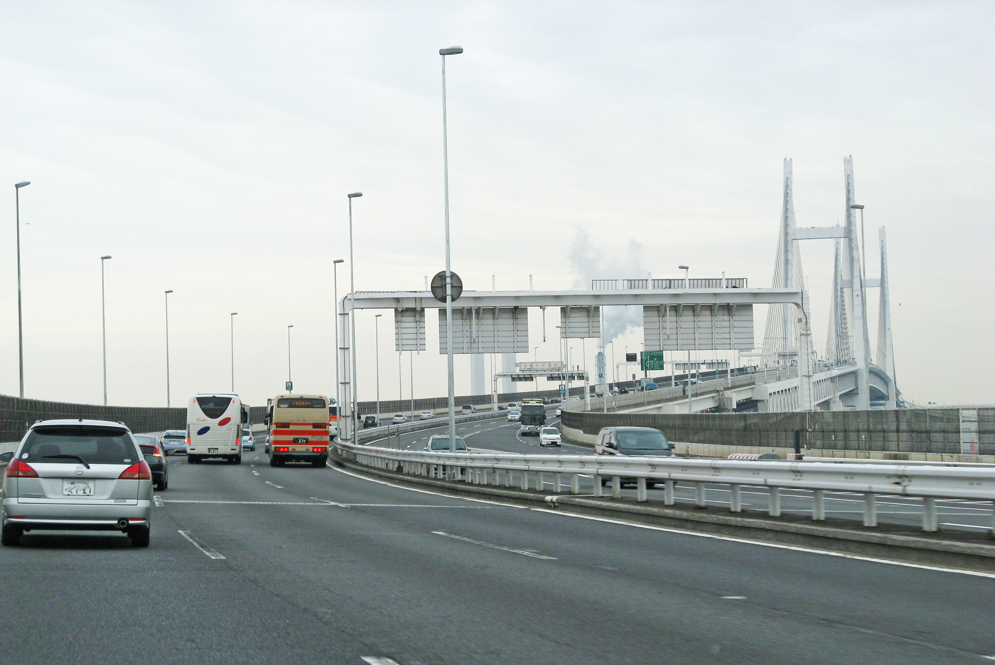 I took this photo.